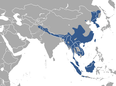 Yellow-throated Marten (Martes flavigula) range